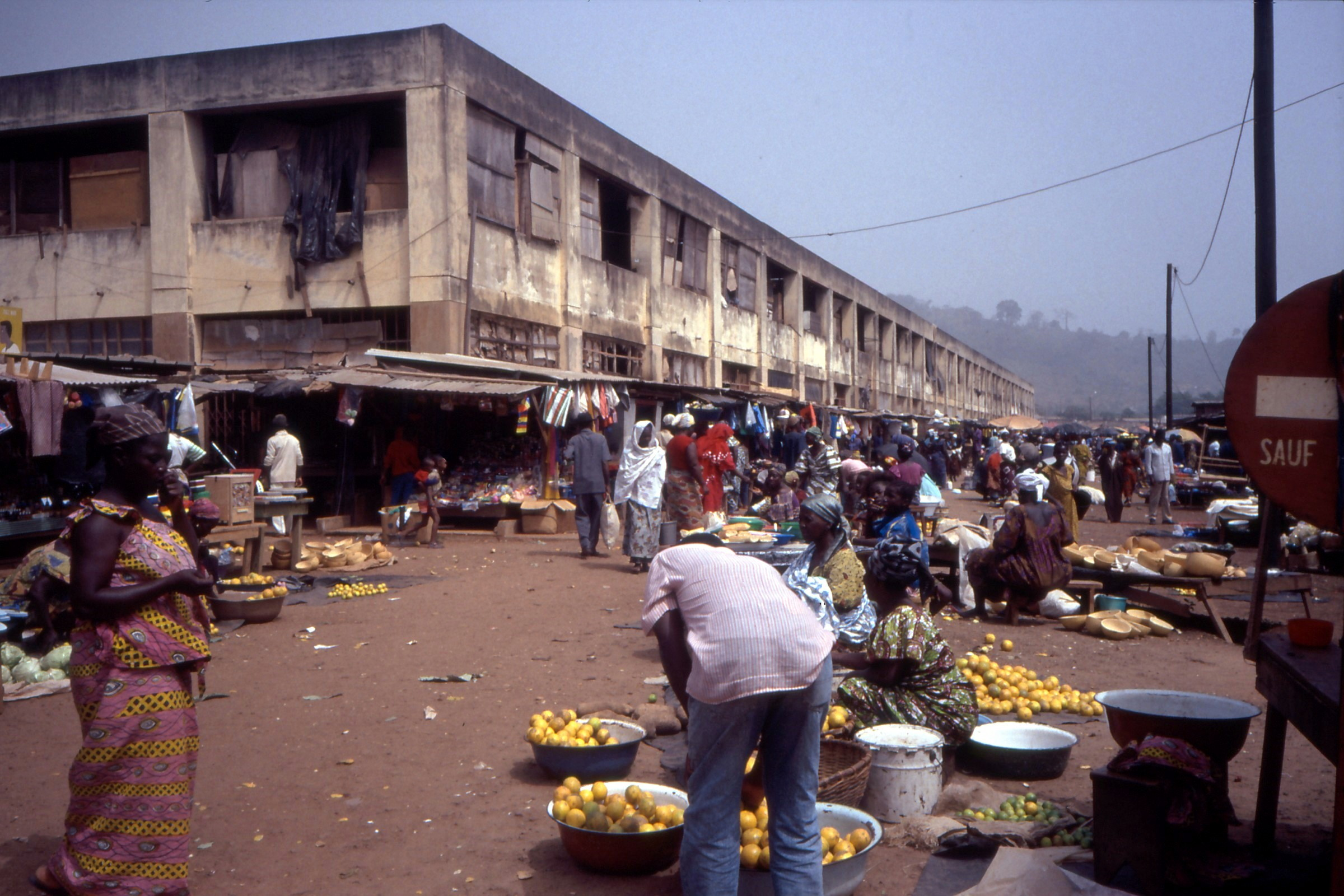 Central market in Man, Ivory Coast (1990)